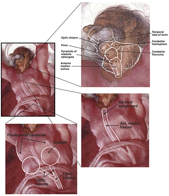 Composite view of concealed neuroanatomical images in Michelangelo's Separation of Light from Darkness in the Sistine Chapel as proposed by Ian Suk and Rafael Tamargo in Neurosurgery, Vol. 66:pp851-861,May 2010.